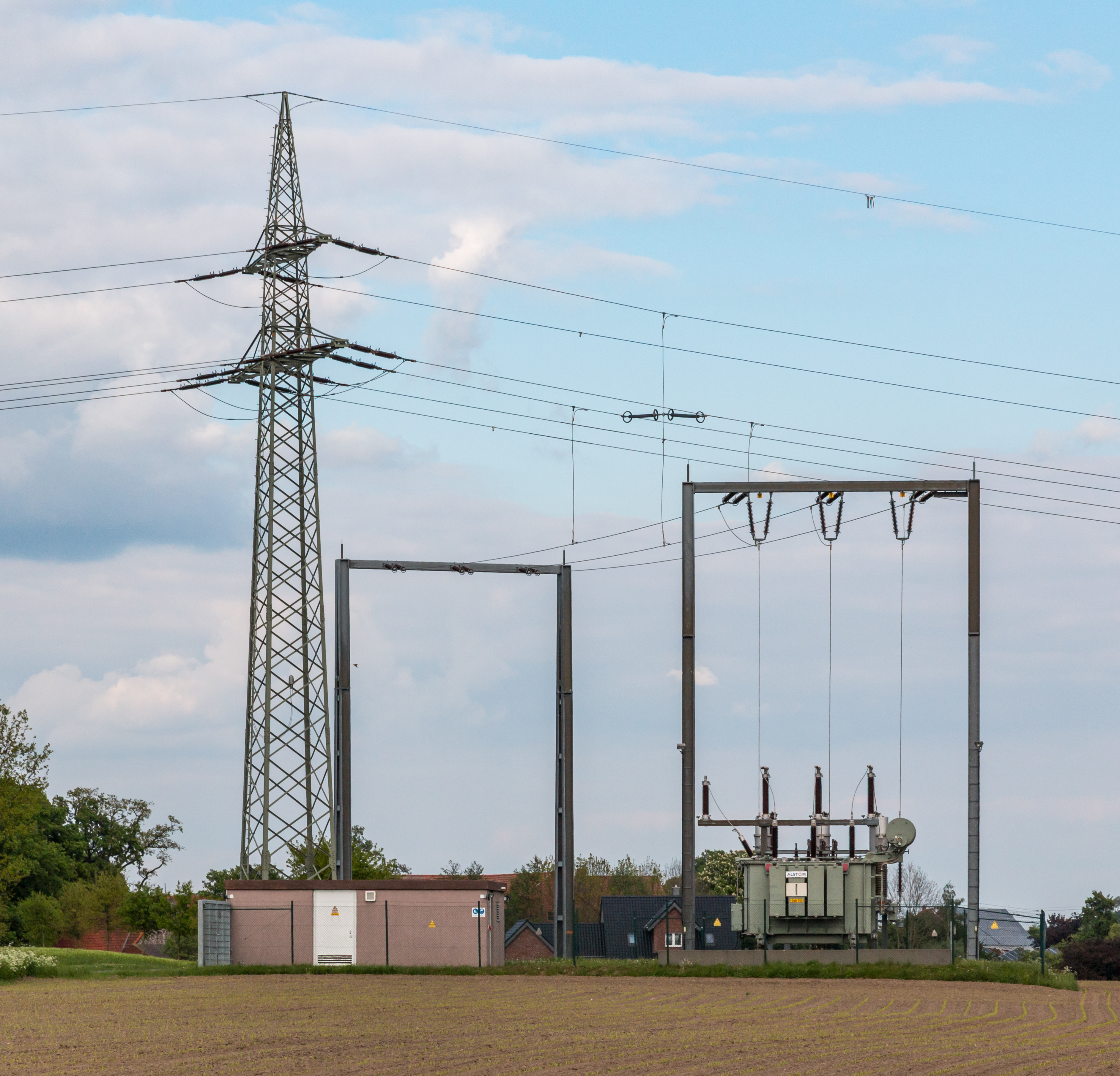 Substation near Dülmen, North Rhine-Westphalia, Germany